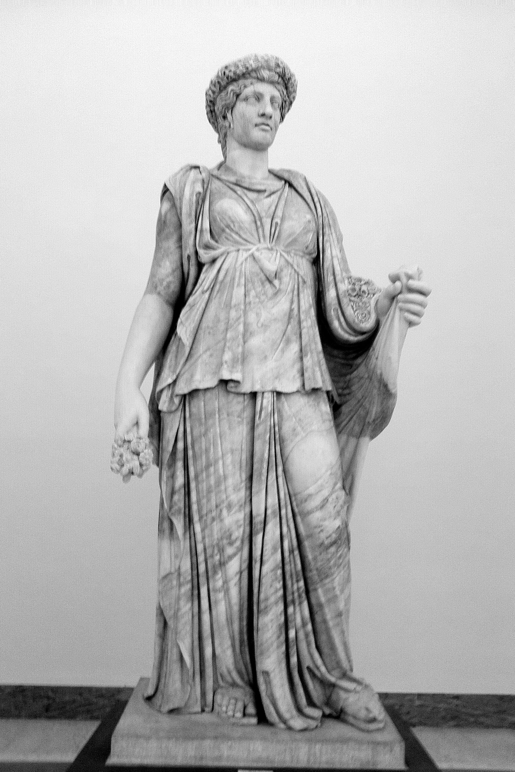 The so-called Pomona or Flor Minor - Roman, second half of 2nd C AD